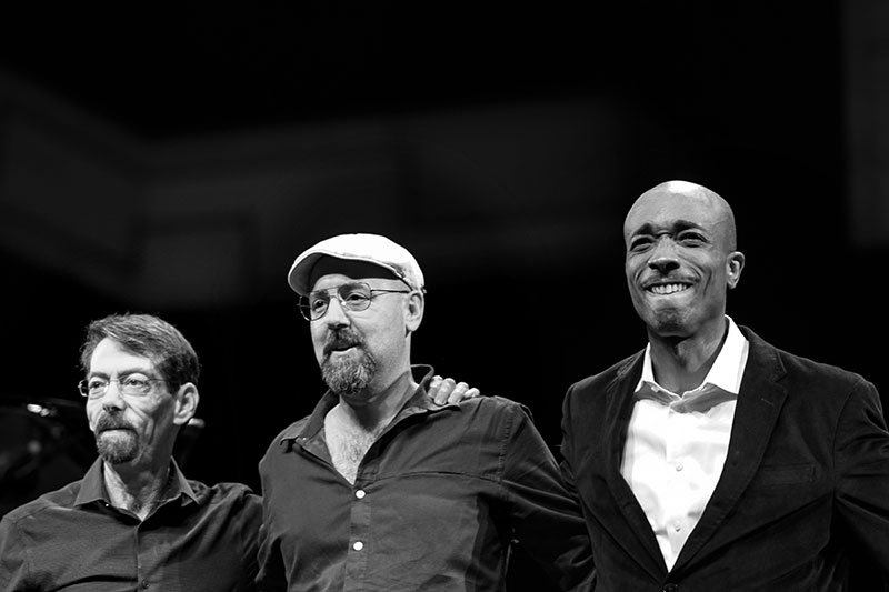 Fred Hersch trio at Reykjavik Jazz Festival 2017, with John Hérbert (b), Eric McPherson (d)